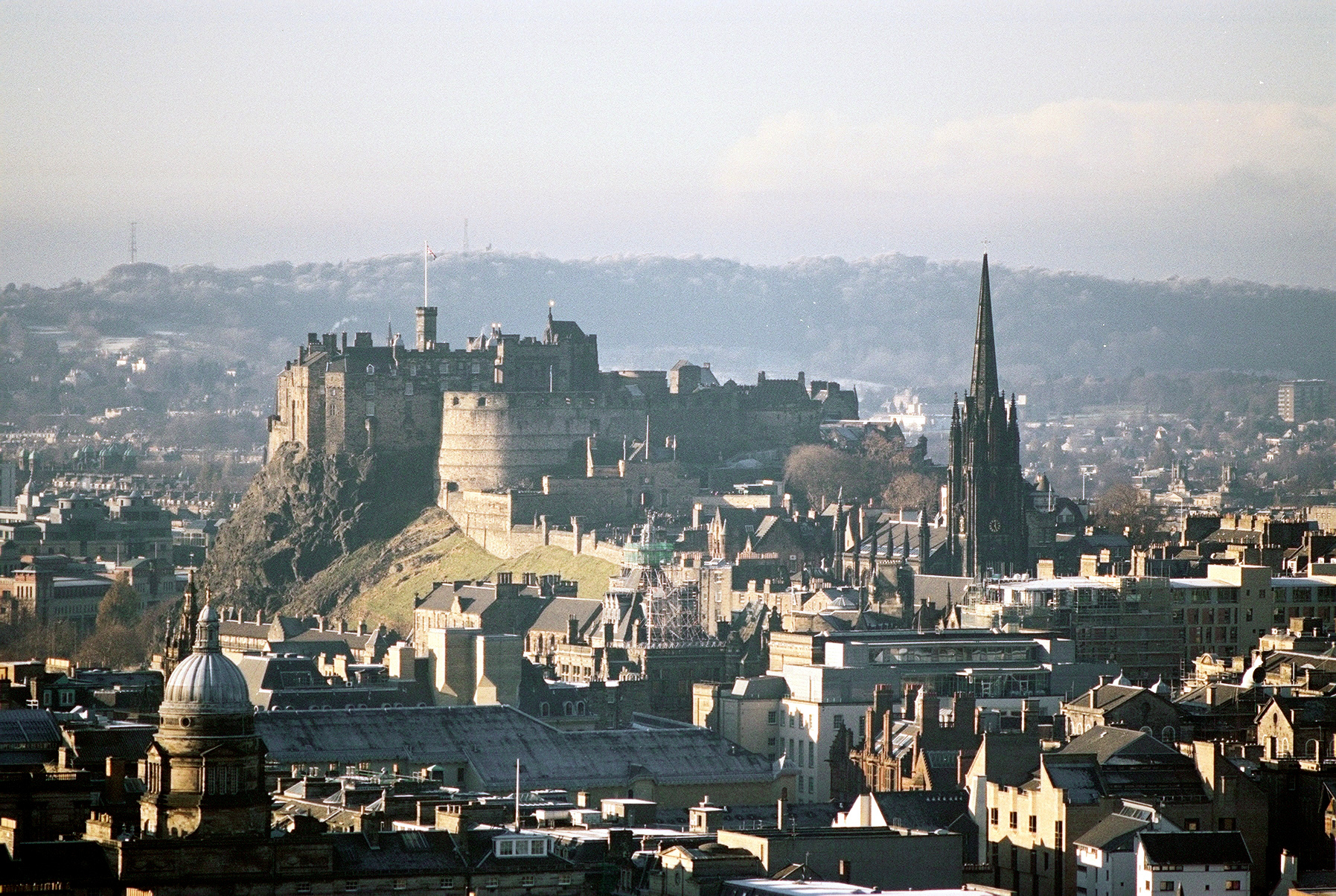 Edinburgh Castle